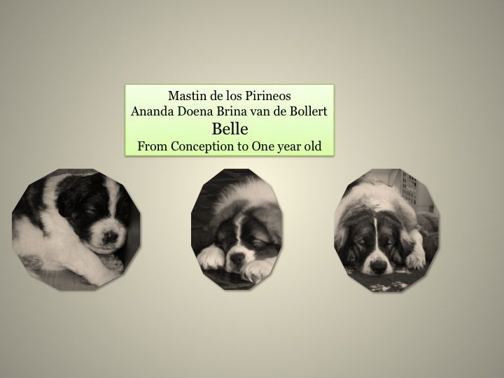 Mastín del Pirineo / Pyrenean Mastiff; development in its first year